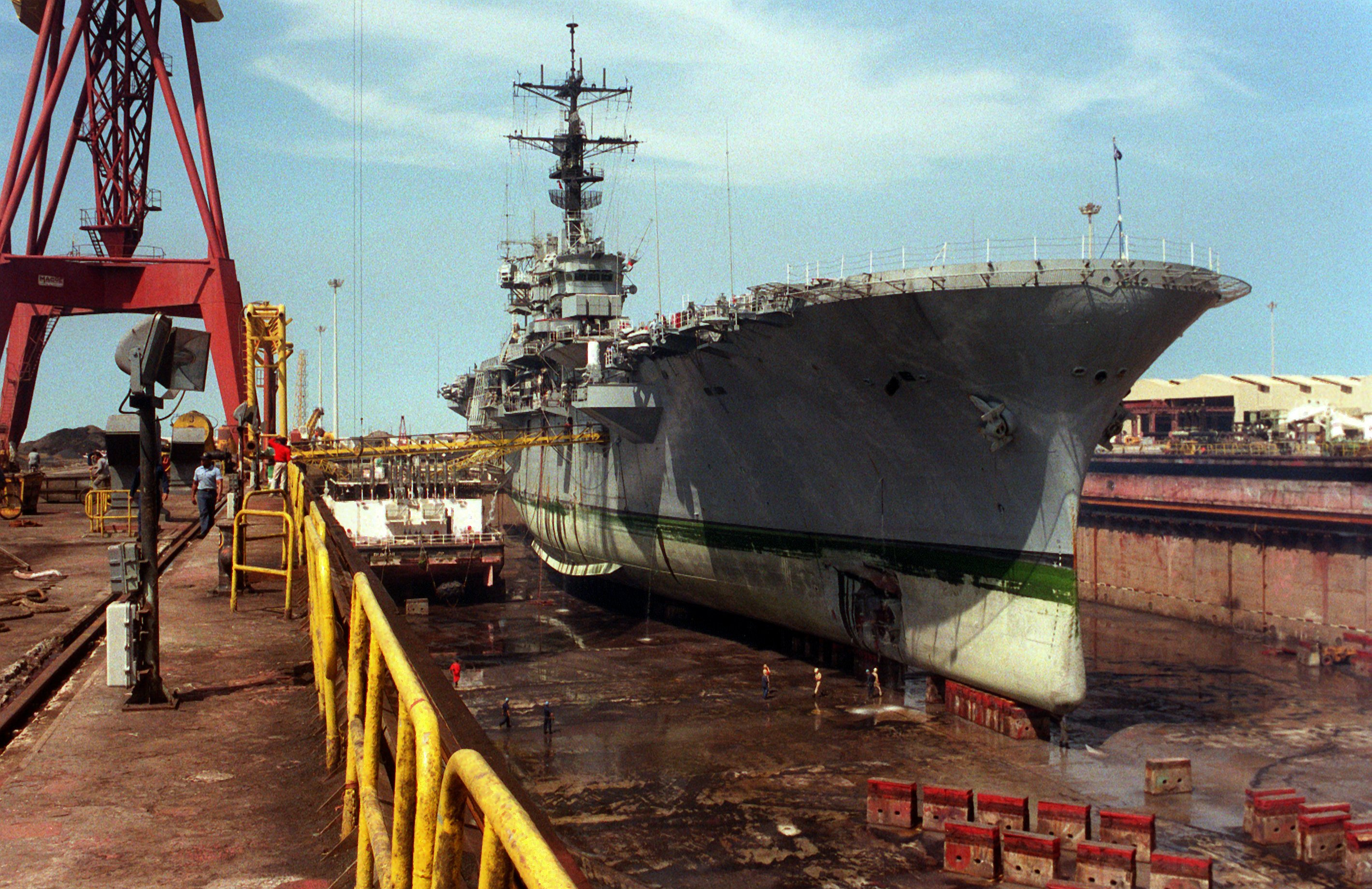 A view of the bow of the amphibious assault ship USS TRIPOLI (LPH-10) in dry dock for repairs of Arab Shipbuilding and Repair Yard Company (Dubaî) to a hole in its starboard bow caused by an Iraqi mine. The TRIPOLI struck the mine on February 18 while serving as a mine-clearing platform in the northern Persian Gulf during Operation Desert Storm. The ship was able to continue operations after damage control crews stopped the flooding caused by the explosion.